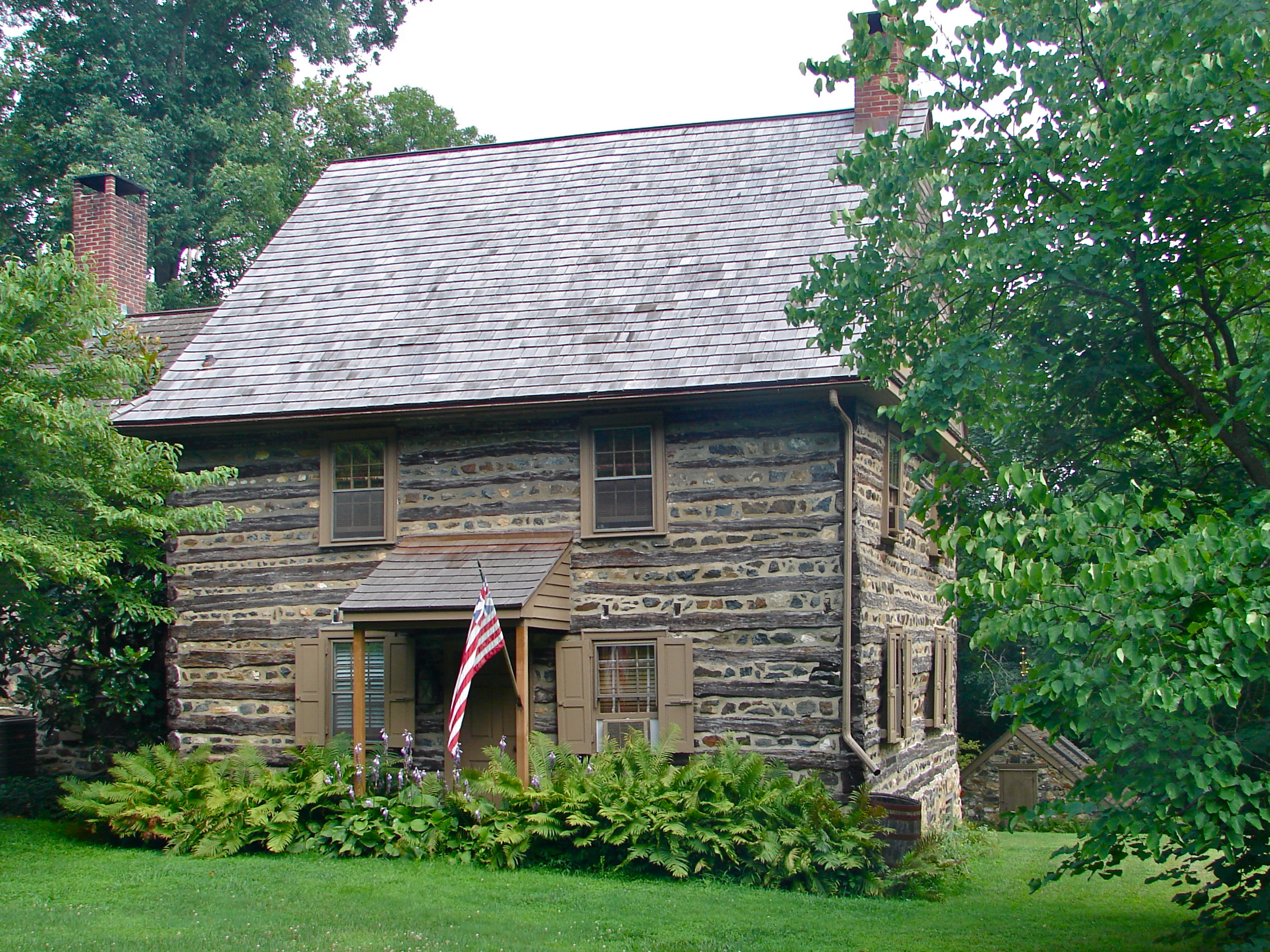 Harlan log cabin near Fairview, Pennsylvania.